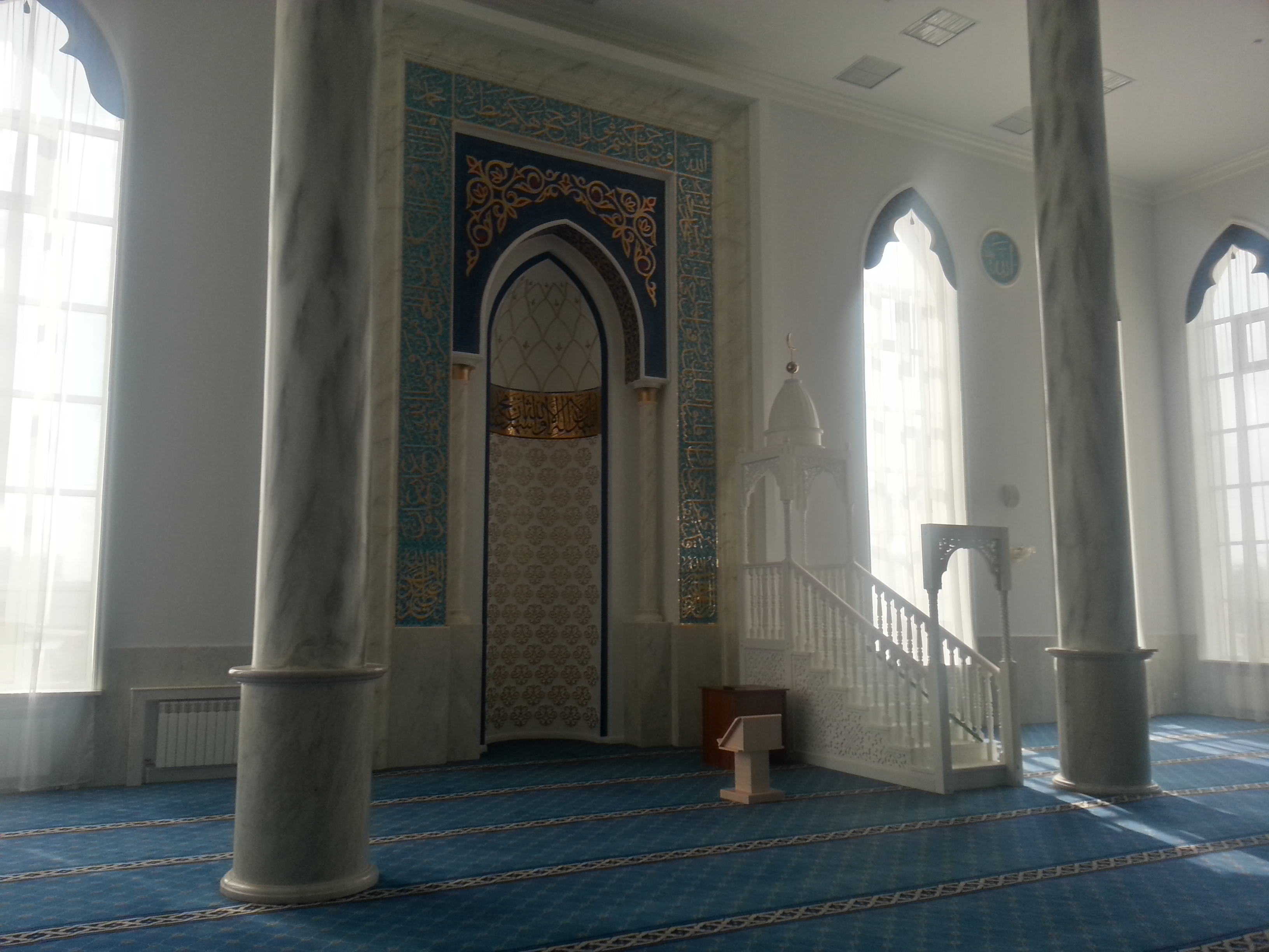 Aktobe Central mosque (interior)